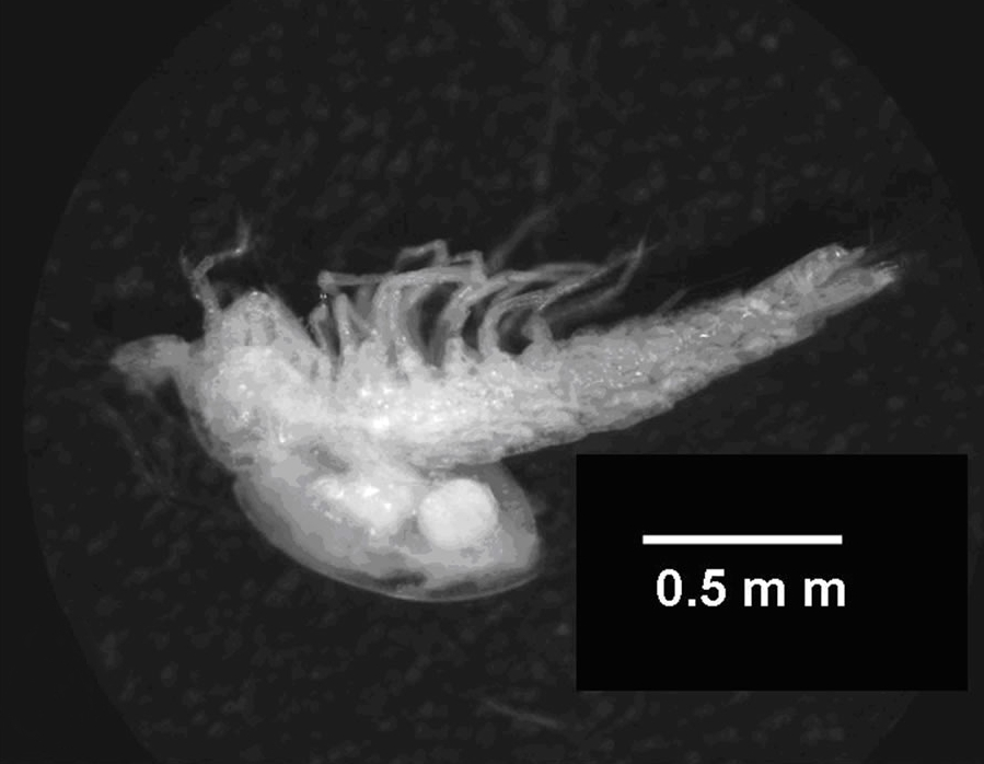 Invertebrates from Ayyalon Cave, Israel. Tethysbaena ophelicola (Photo N. Ben Eliahu)